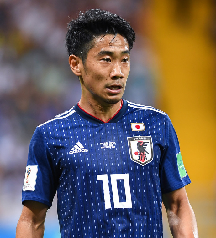 Shinji Kagawa with Japan against Belgium in the 2018 FIFA World Cup